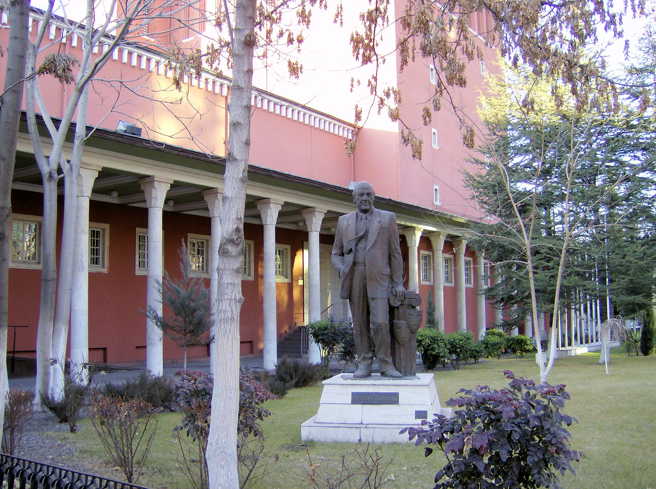 Statue of Cüneyt Gökçer in front of Ankara Opera House, main venue of the Turkish State Opera and Ballet in Ankara, Turkey